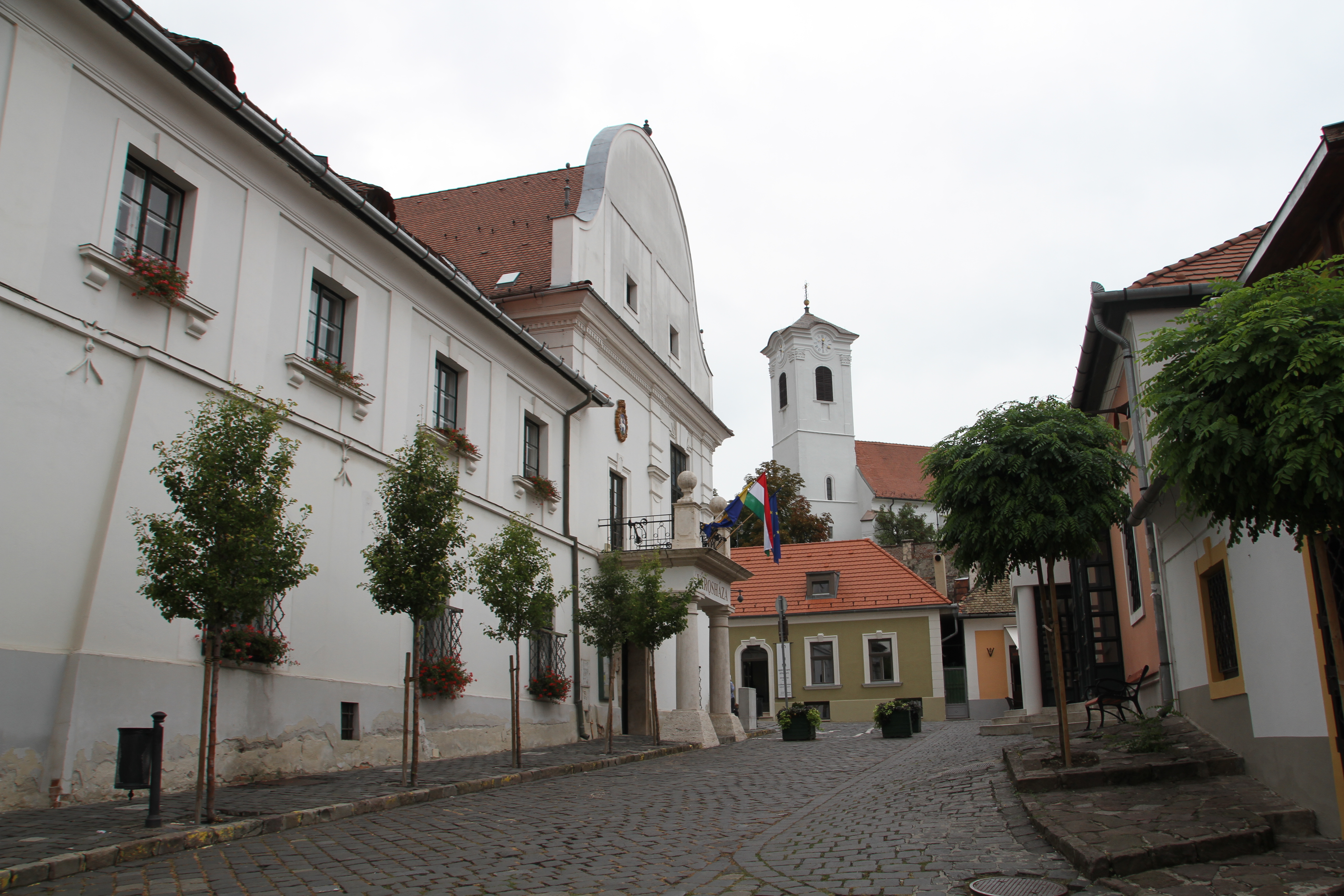 Image of the City Hall of Szentendre municipality, Hungary